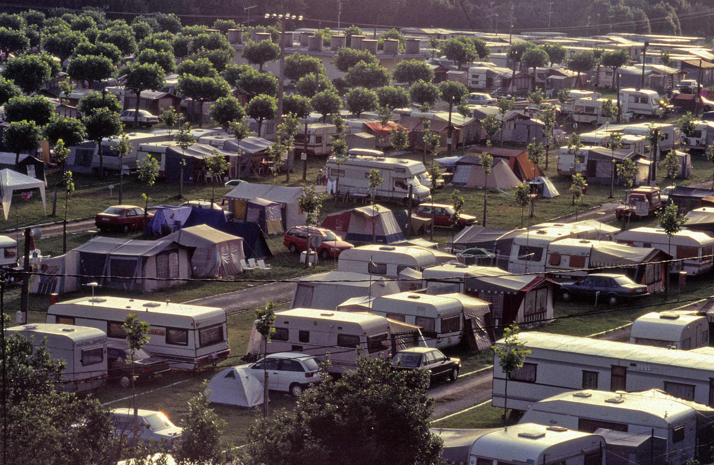 Camping site in northern Spain, July 1994.